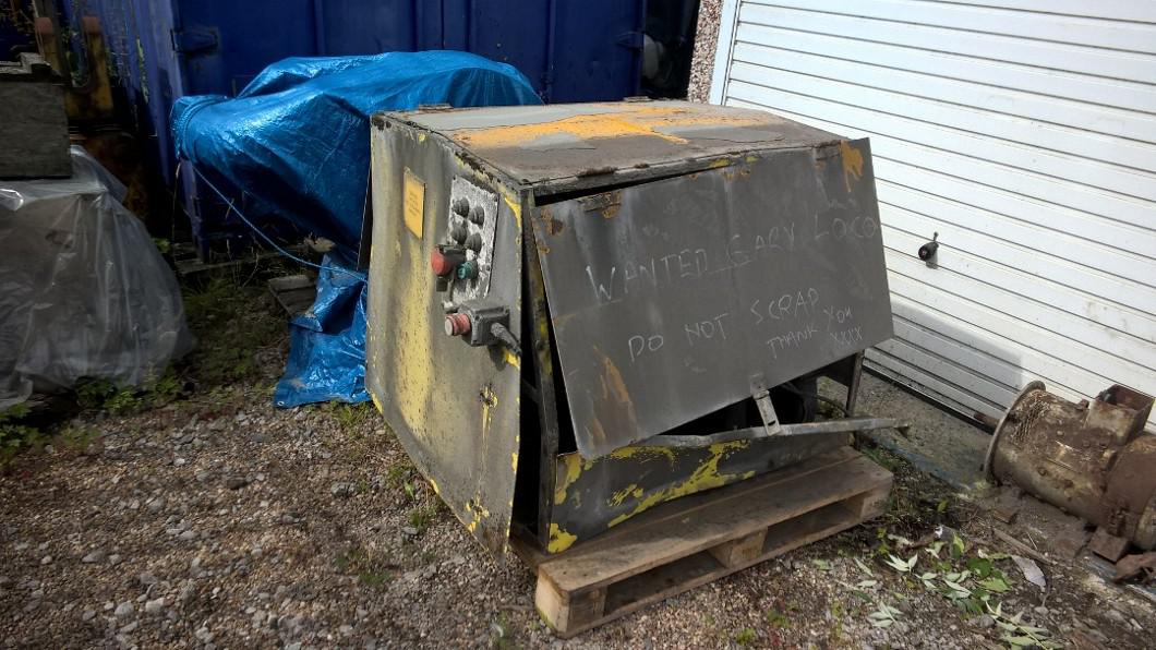 An MGR Dalek, in as received condition from Hope Cement Works